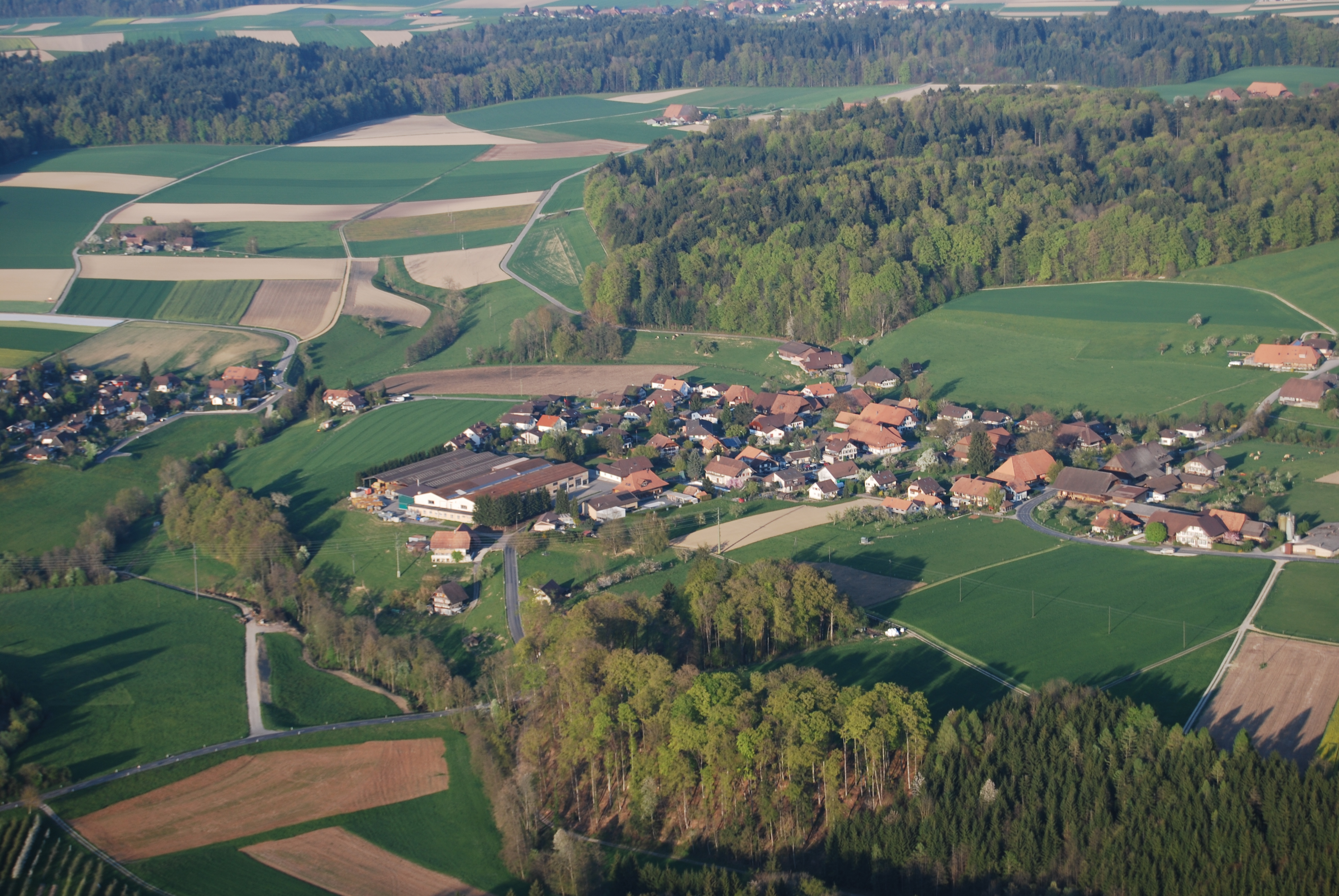 Etzelkofen, canton of Berne, Switzerland